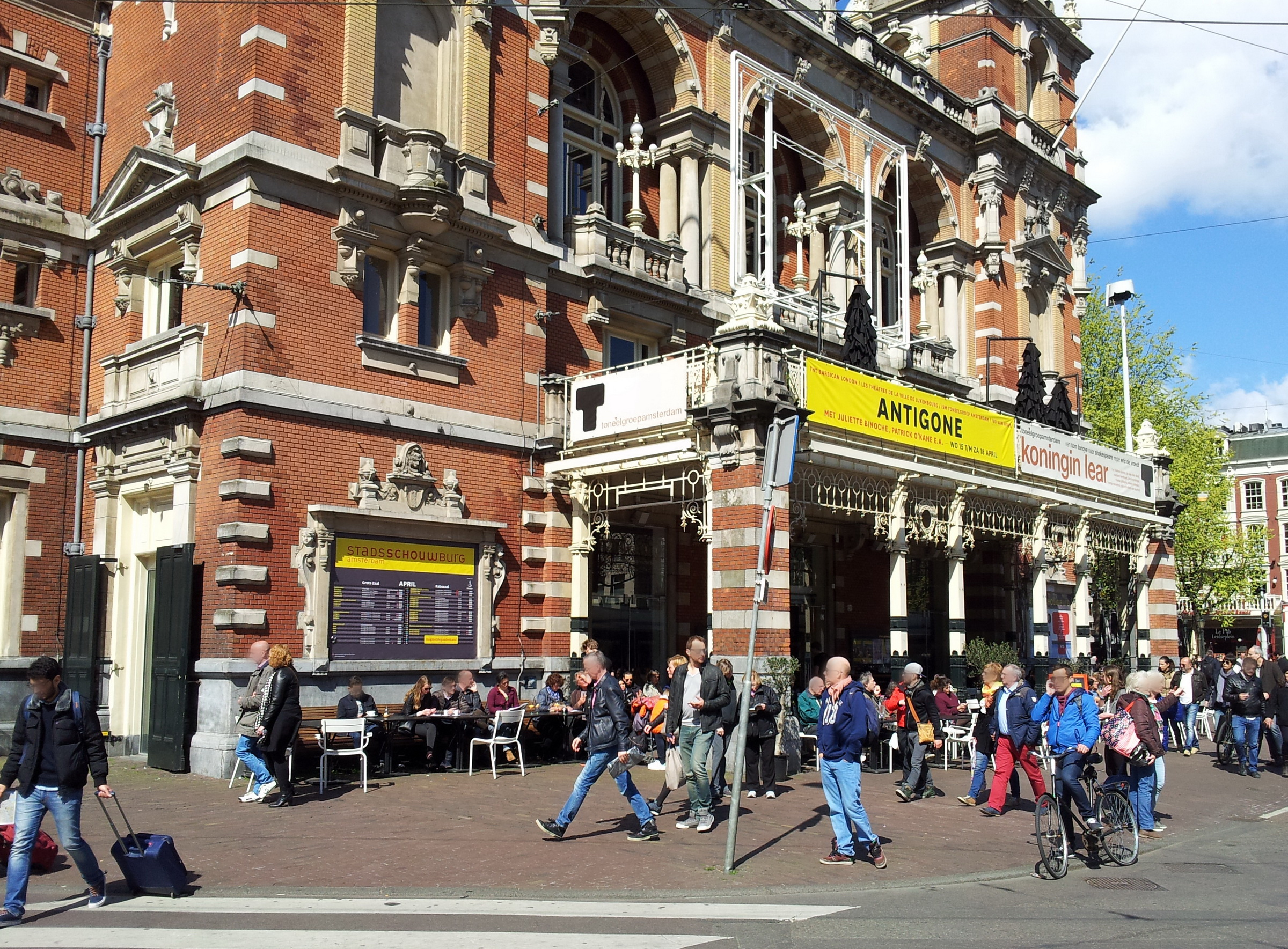 Amsterdam, the Netherlands. View from Leidseplein of Stadsschouwburg, Amsterdam's municipal theatre.